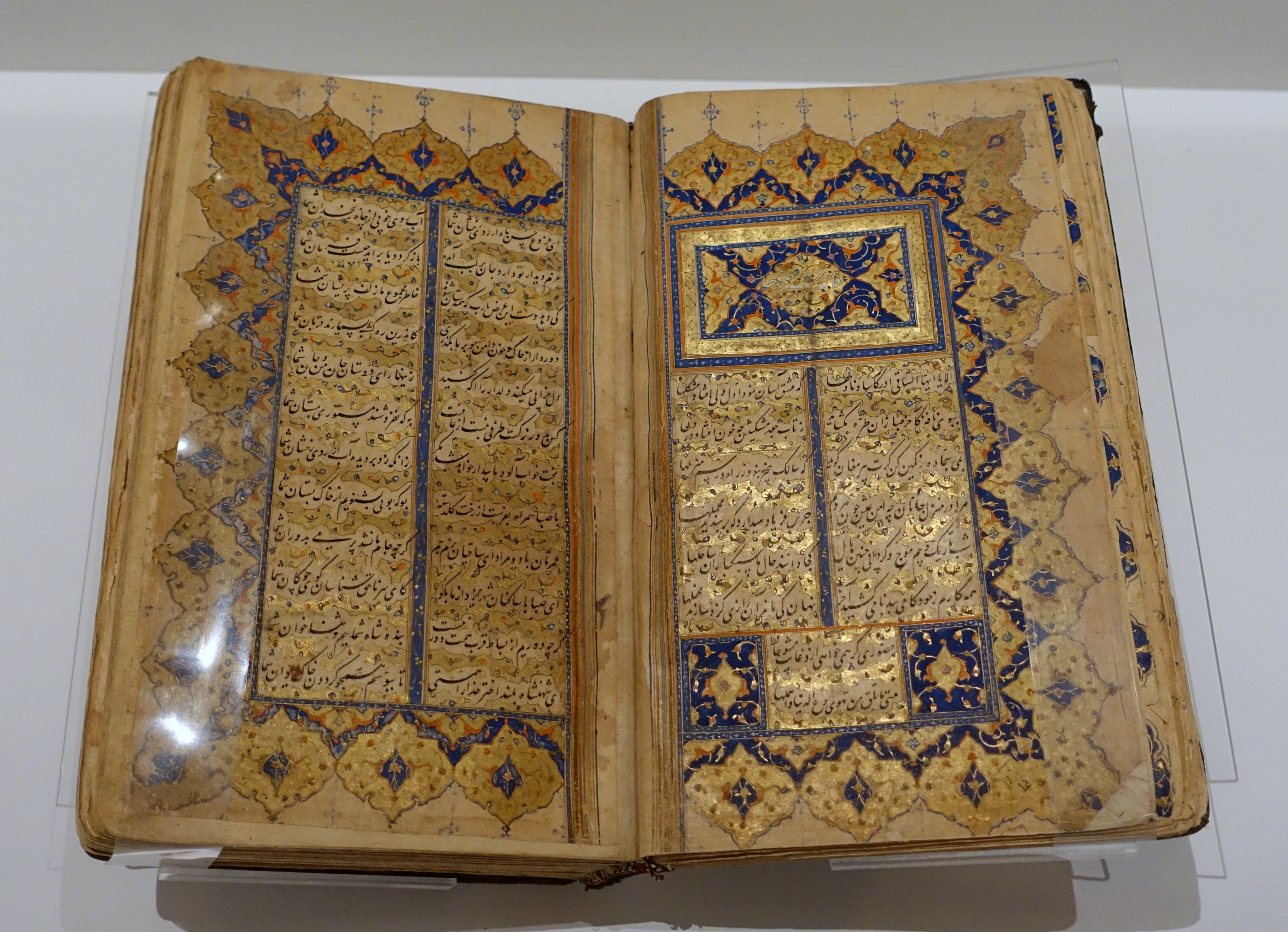 Exhibit in the Aga Khan Museum - Toronto, Canada. This work is old enough so that it is in the public domain.